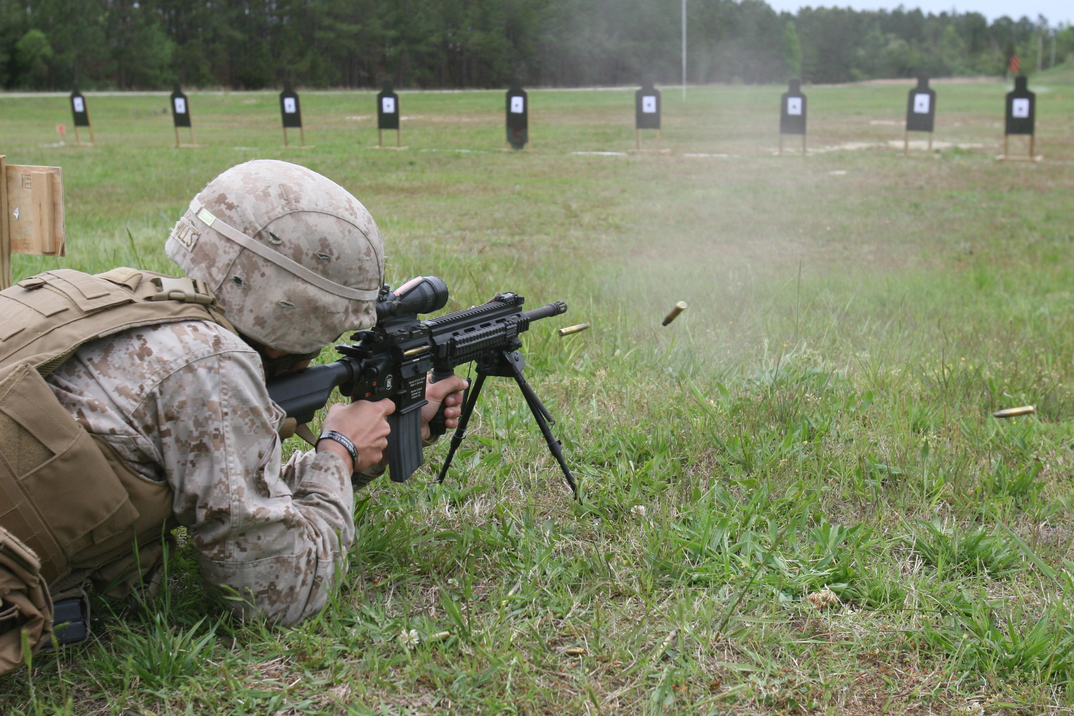 Lance Cpl. Michael Mills, a scout with 2nd Light Armored Reconnaissance Battalion, 2nd Marine Division, fires the M27 Infantry Automatic Rifle on full auto for the first time. The Wytheville, Va., native loves everything about the rifle from its accuracy and smooth trigger pull to its light weight and slim build. Mills said that his favorite feature of the M27 IAR is how easy they are to clean. The rifle is designed so that 95 percent of the carbon is blown out the barrel so that even after dozens of rounds have been shot, as Mills put it, it looks like it hasn’t been fired once.